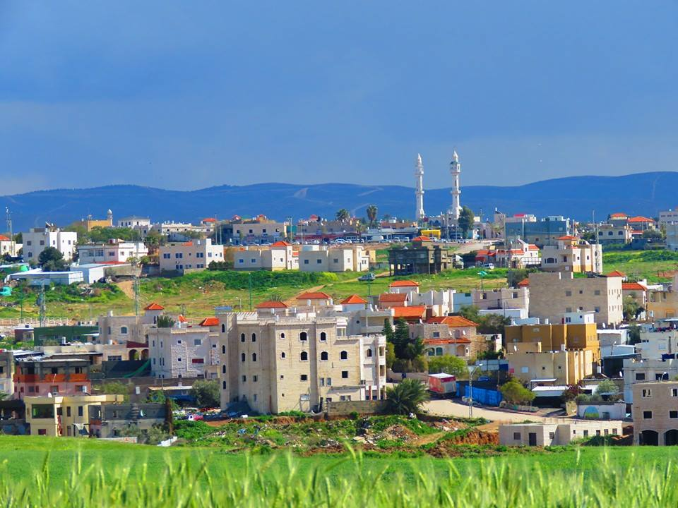 Rahat, Architecture of Israel